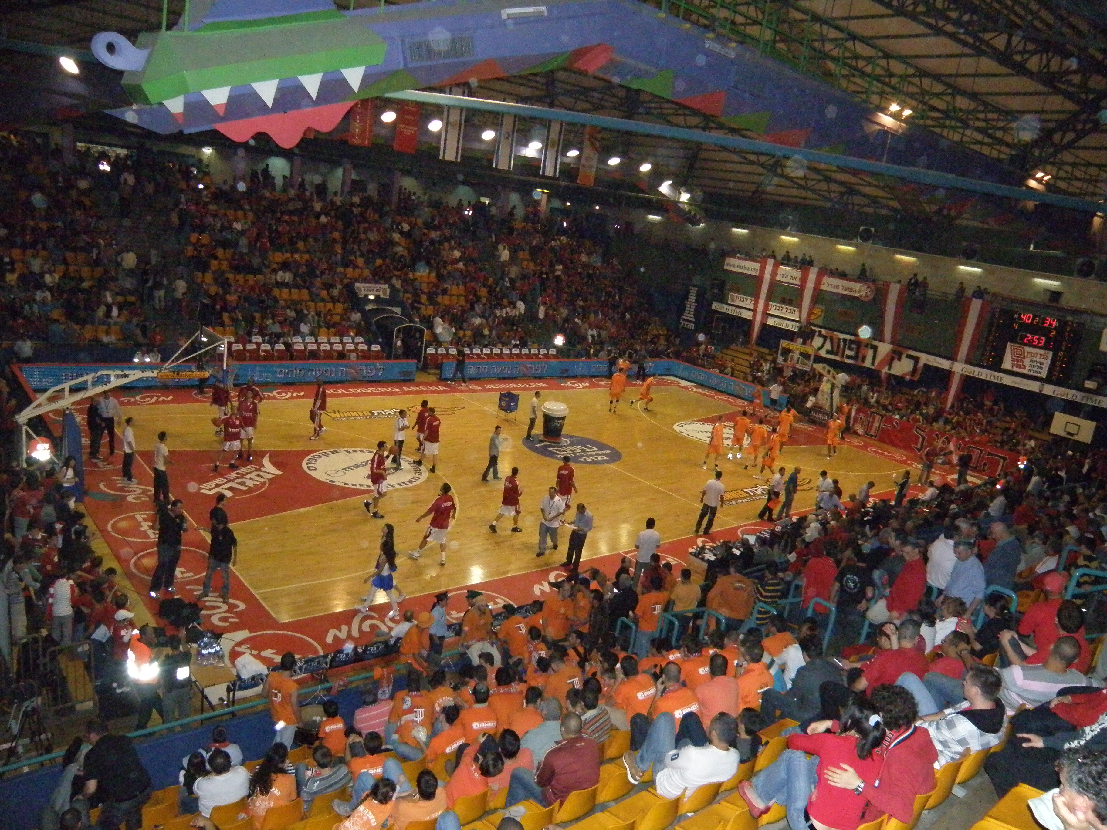 The Malcha Arena during a play-off game between Hapoel Jerusalem BC and Maccabi Rishon LeZion